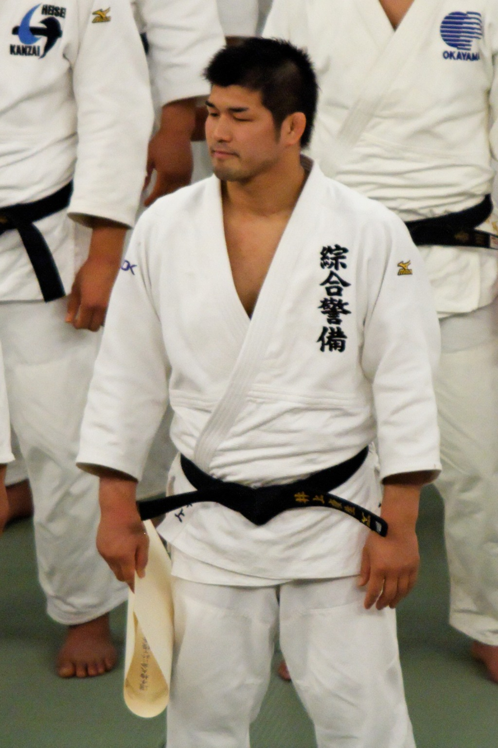 Inoue Kosei (井上康生) All-Japan Judo Championships in 2008